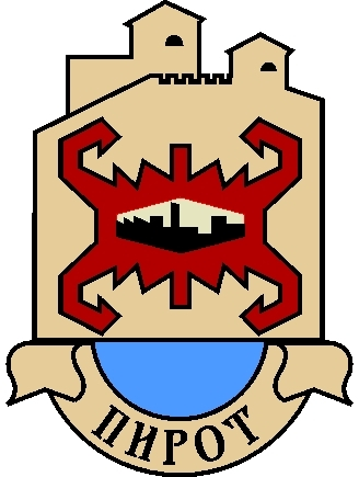 Coat of arms of Pirot, Serbia/Blason de la ville de Pirot, Serbie